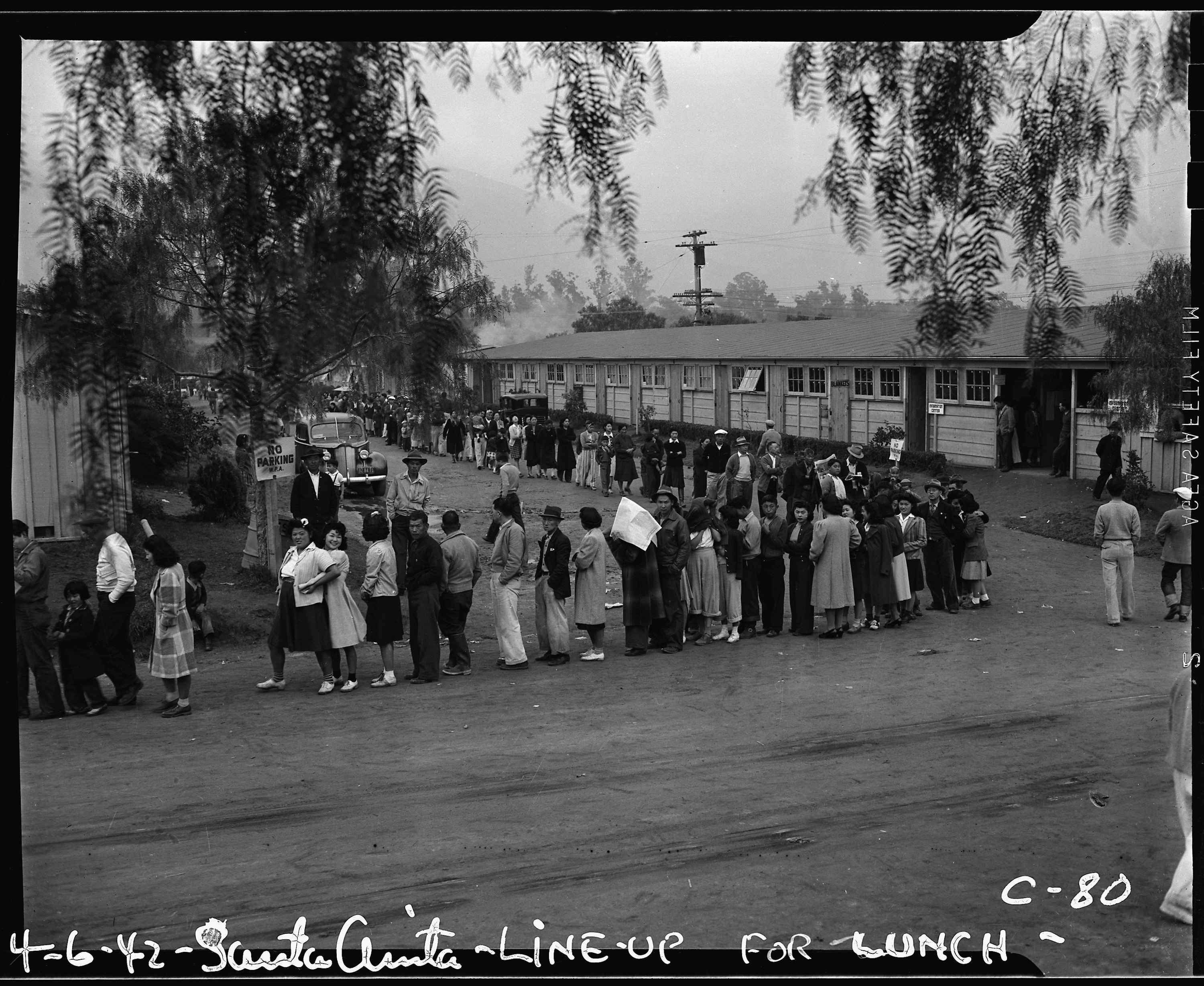 General notes: The Santa Anita Racetrack was requisitioned for the Santa Anita Assembly center, with horse stalls as interim dwelling cells until citizens were transferred to distant inland internment camps. hoto taken April 1942.